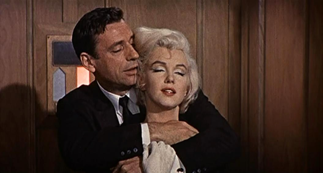 Yves Montand & Marilyn Monroe in Let's Make Love - trailer (cropped screenshot)